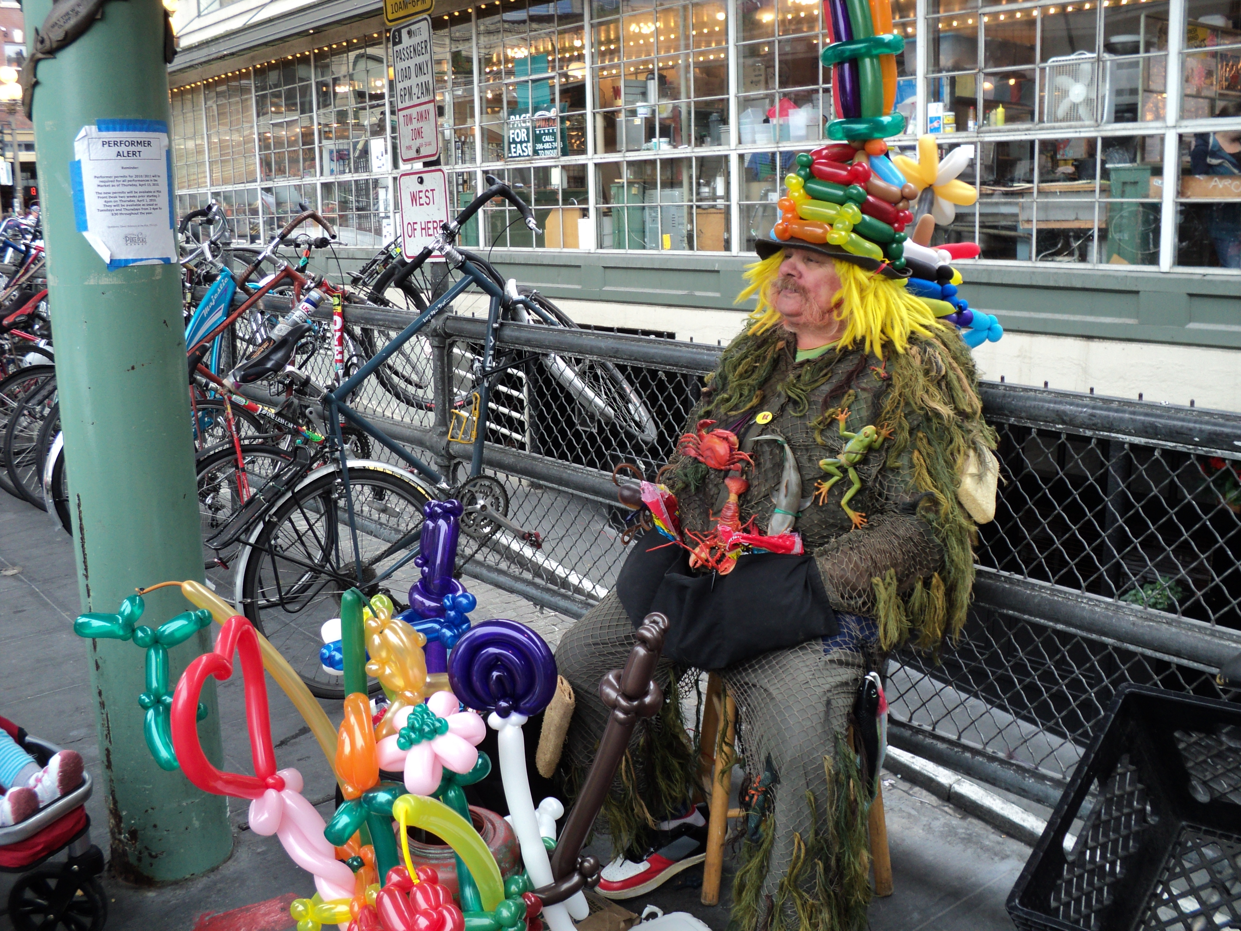 Shot of the balloon man, longtime habitué of Pike Place Market, Seattle, Washington. He is sitting on a bench on Pike Street, near the corner of Pike Place. Behind him is the Economy Market building. Between him and the building a piece of Pike Street (not visible) runs down to lower Post Alley.